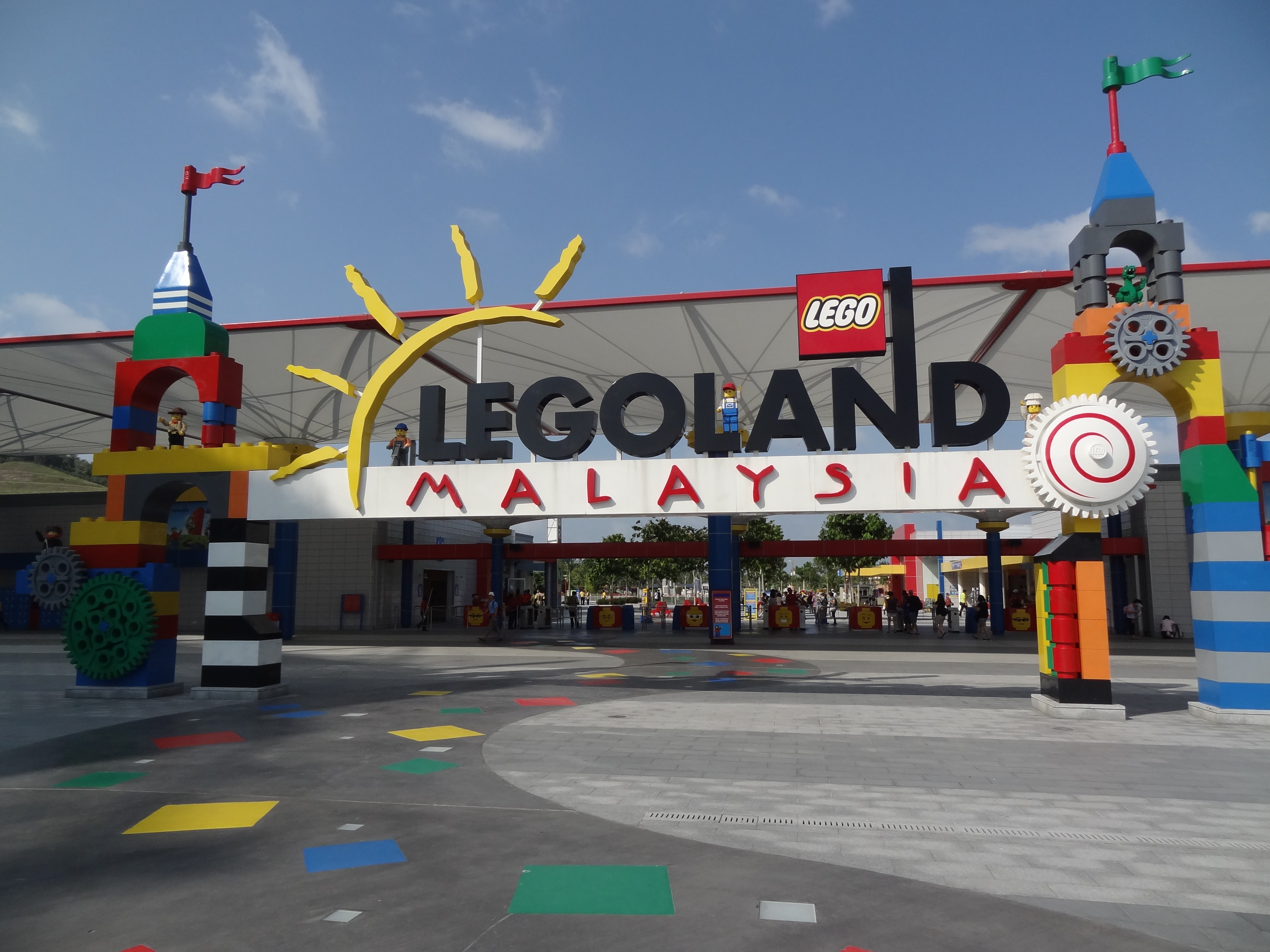 Entrance of Legoland Malaysia